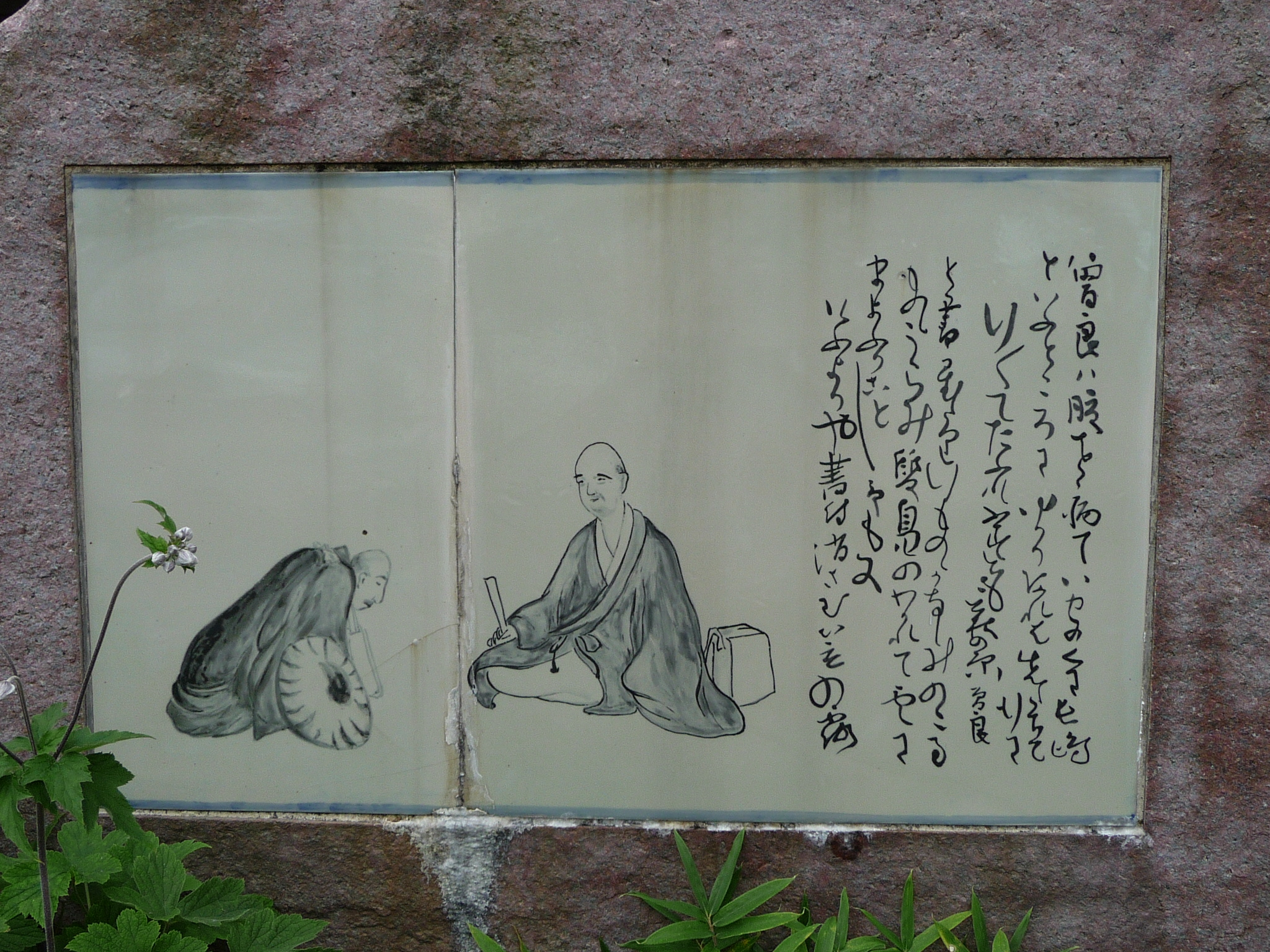 Oku no Hosomichi- the separation at Yamanaka, of Kawai Sora (河合 曾良) from Matsuo Basho due to the former's gastric illness. An emakimono illustration of Oku no Hosomichi reproduced on Kutani ware. Photo on 15 August 2008.